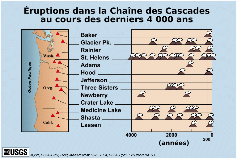 USGS image from